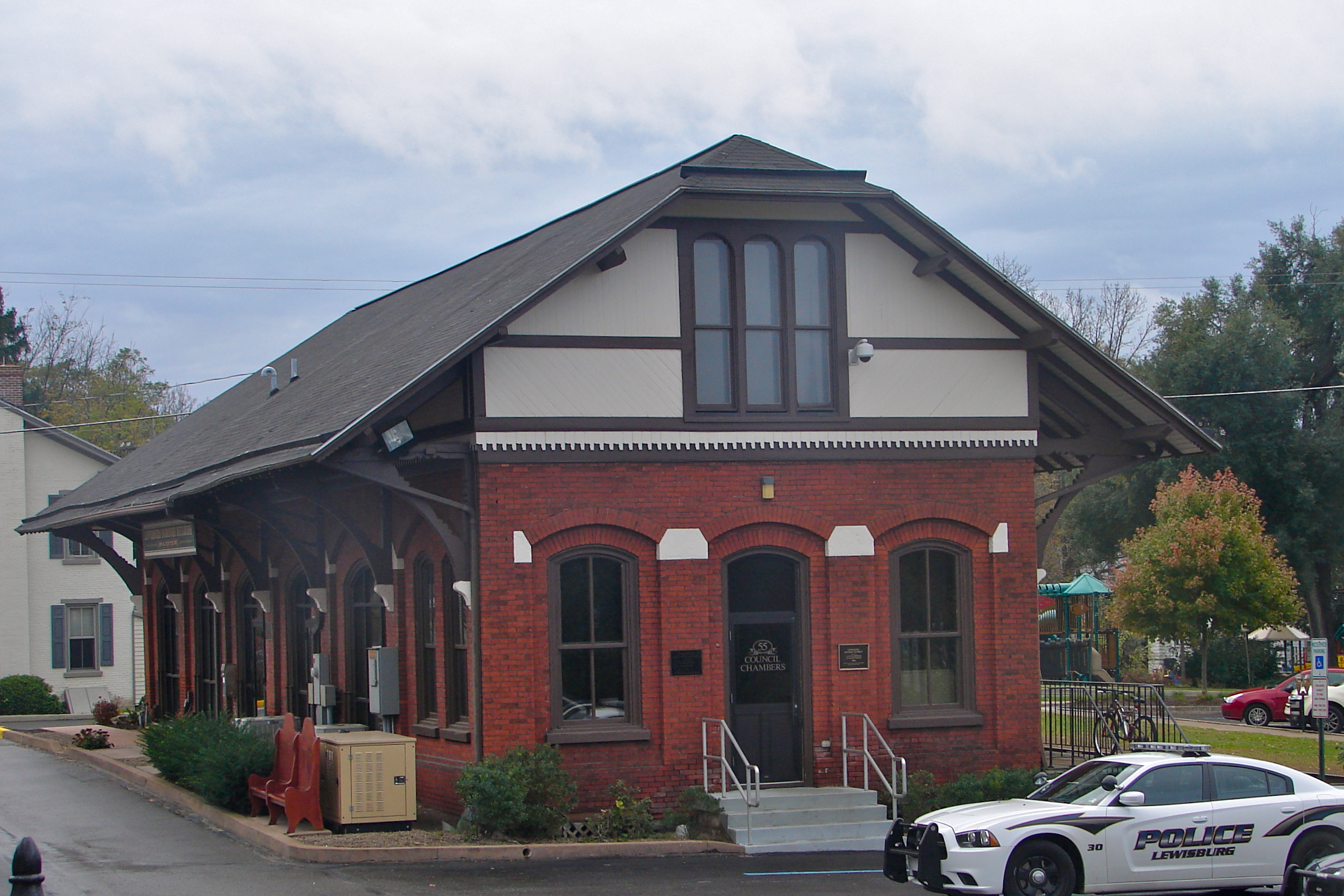 Reading Railroad Freight Station on the NRHP since January 22, 1992 At the junction of South 5th and St. Louis Streets, Lewisburg, Pennsylvania. Now used as a municipal building. See also Milton PA Freight Depot.jpg, a very similar building also on the NRHP in the next town north.